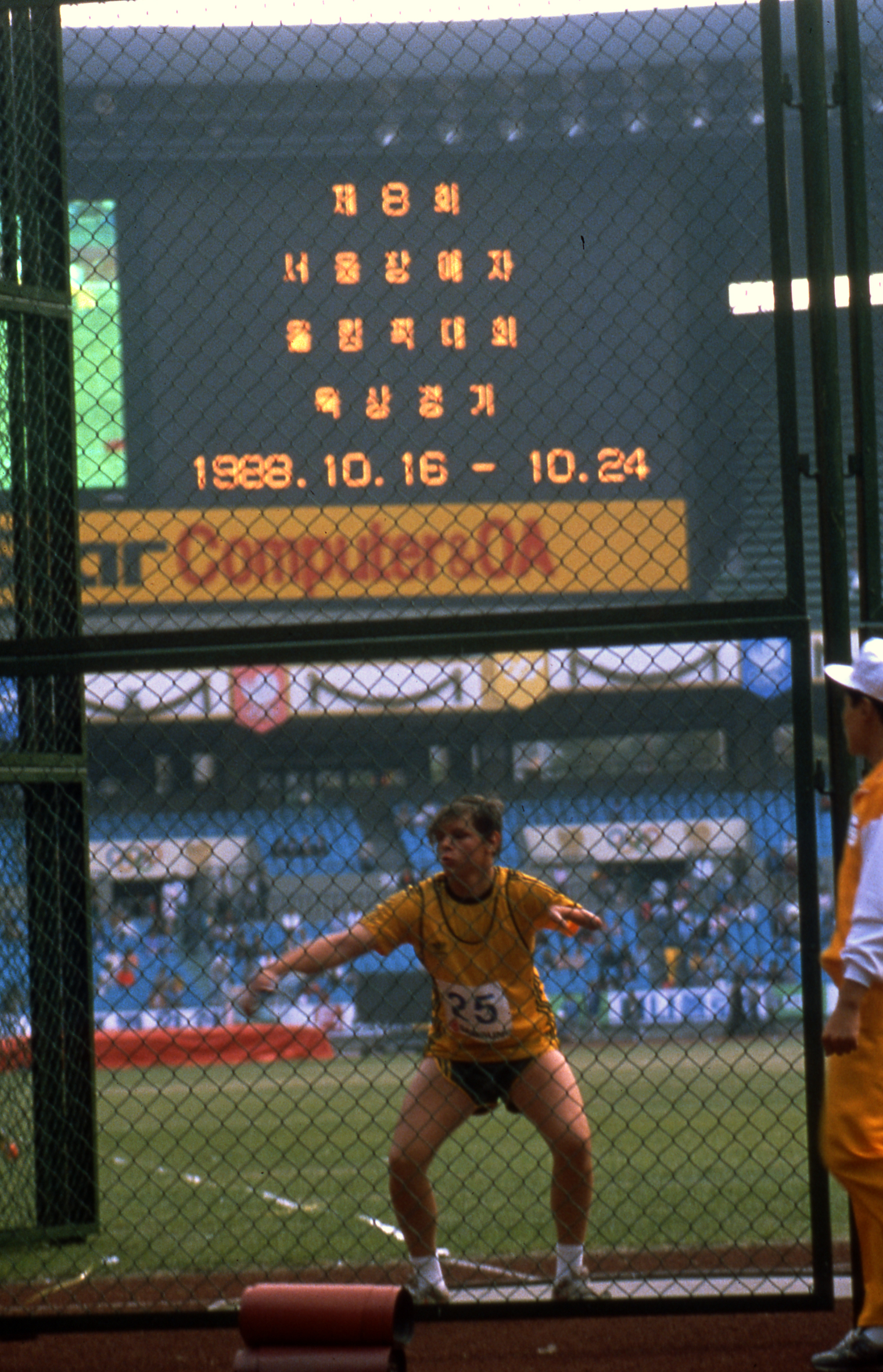 Unknown Australian discus competitor 1988 Seoul Paralympic Games